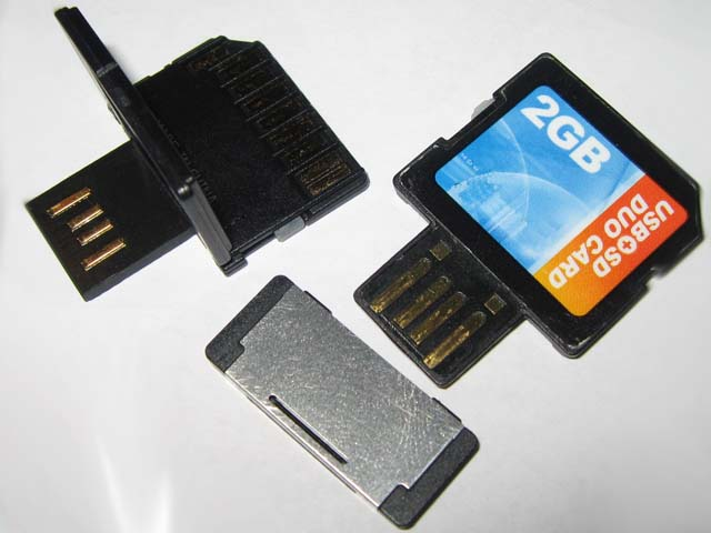 Secure Digital cards with USB connector. With flip-over and cap covers.